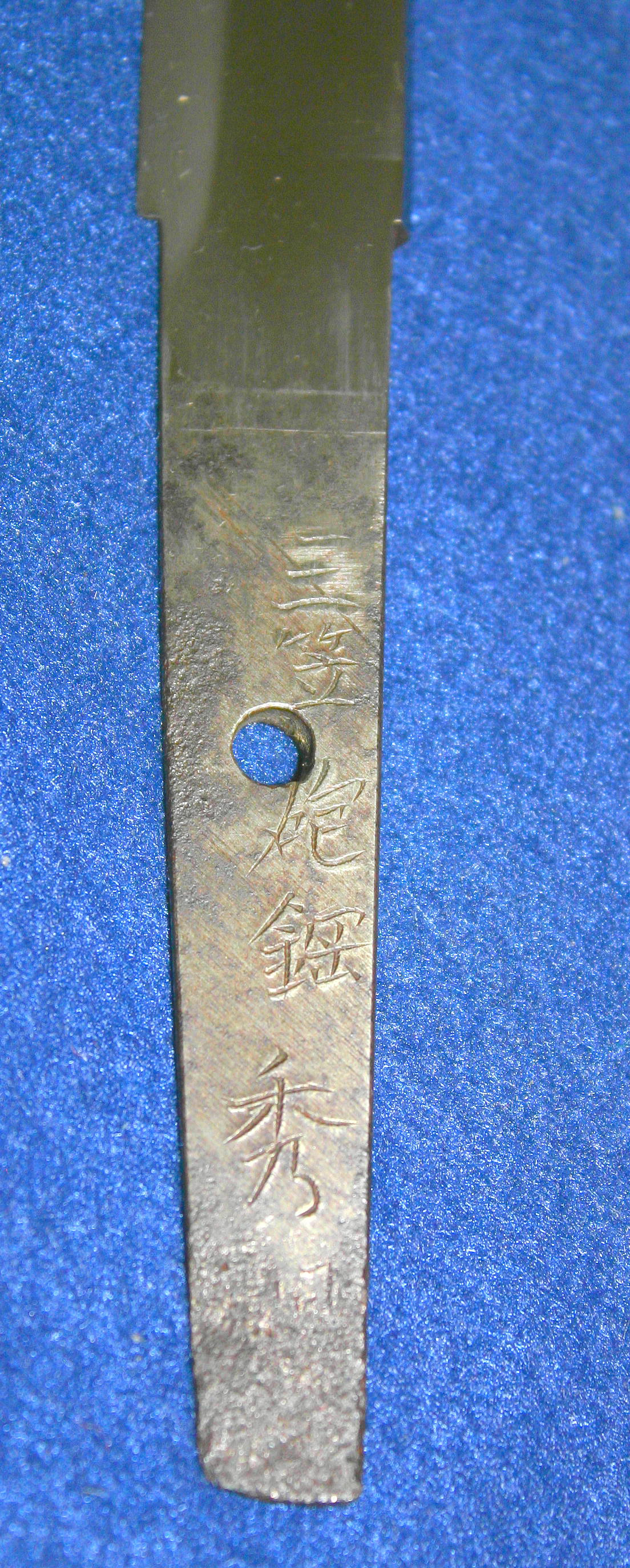 Japanese short sword made from the cannon barrel of the battleship Mikasa